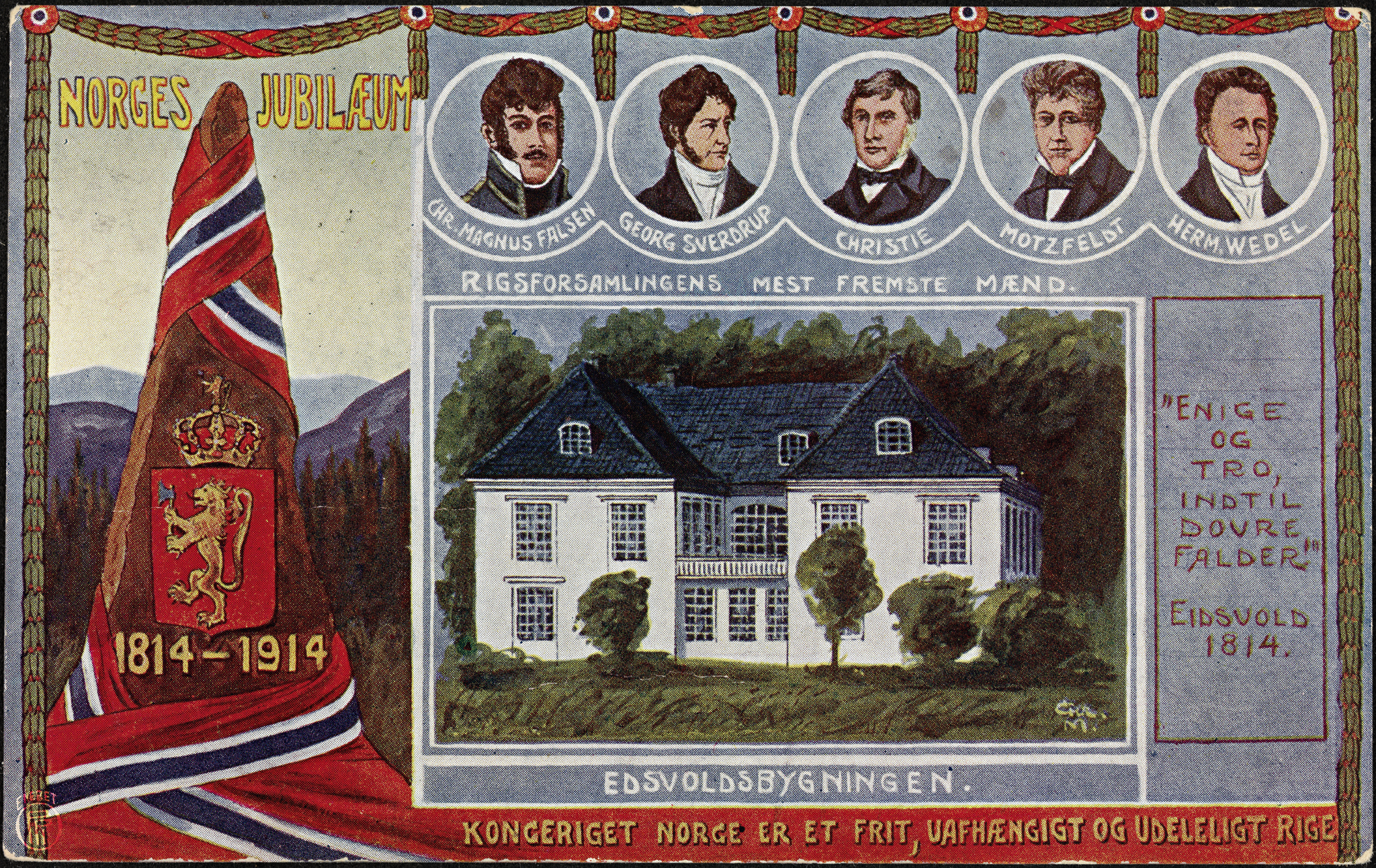 Tittel / Title: Norges Jubilæum 1814-1914 Beskrivelse / Description: Postkort. Kunstner / Artist: Christian Magnus Utgiver / Publisher: Oppi Utgitt / Published: 1914 Sted / Place: Akershus, Eidsvoll Eier / Owner Institution: Nasjonalbiblioteket / National Library of Norway Lenke / Link: Bildesignatur / Image Number: blds_05711